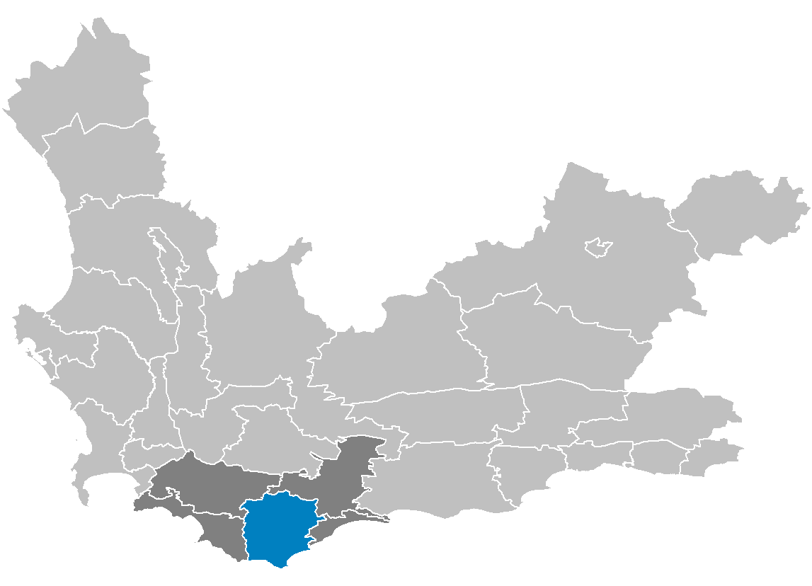 Map showing the Cape Agulhas Local Municipality, within the Overberg District Municipality, within the Western Cape.